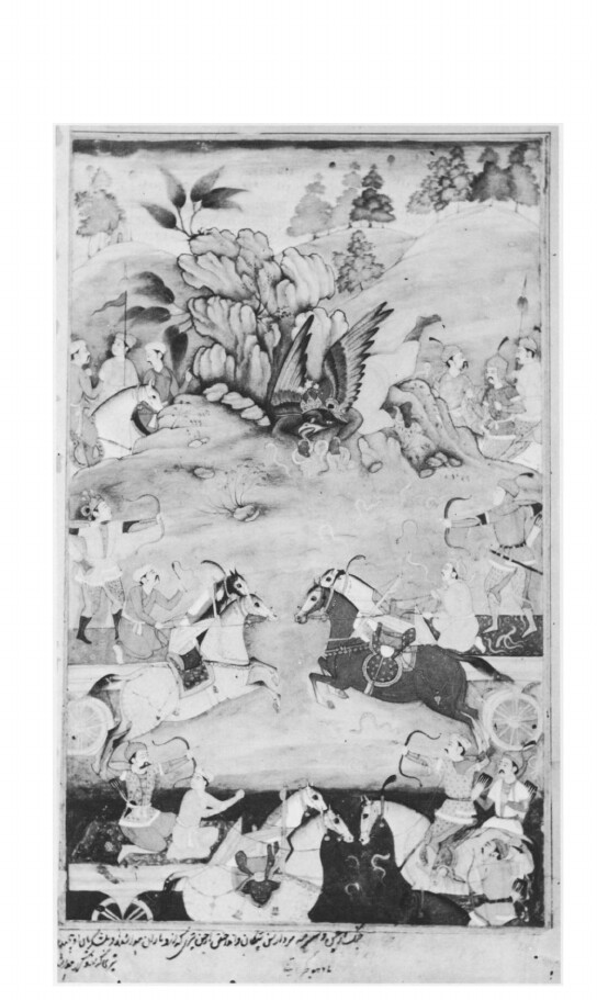 Mahabharata